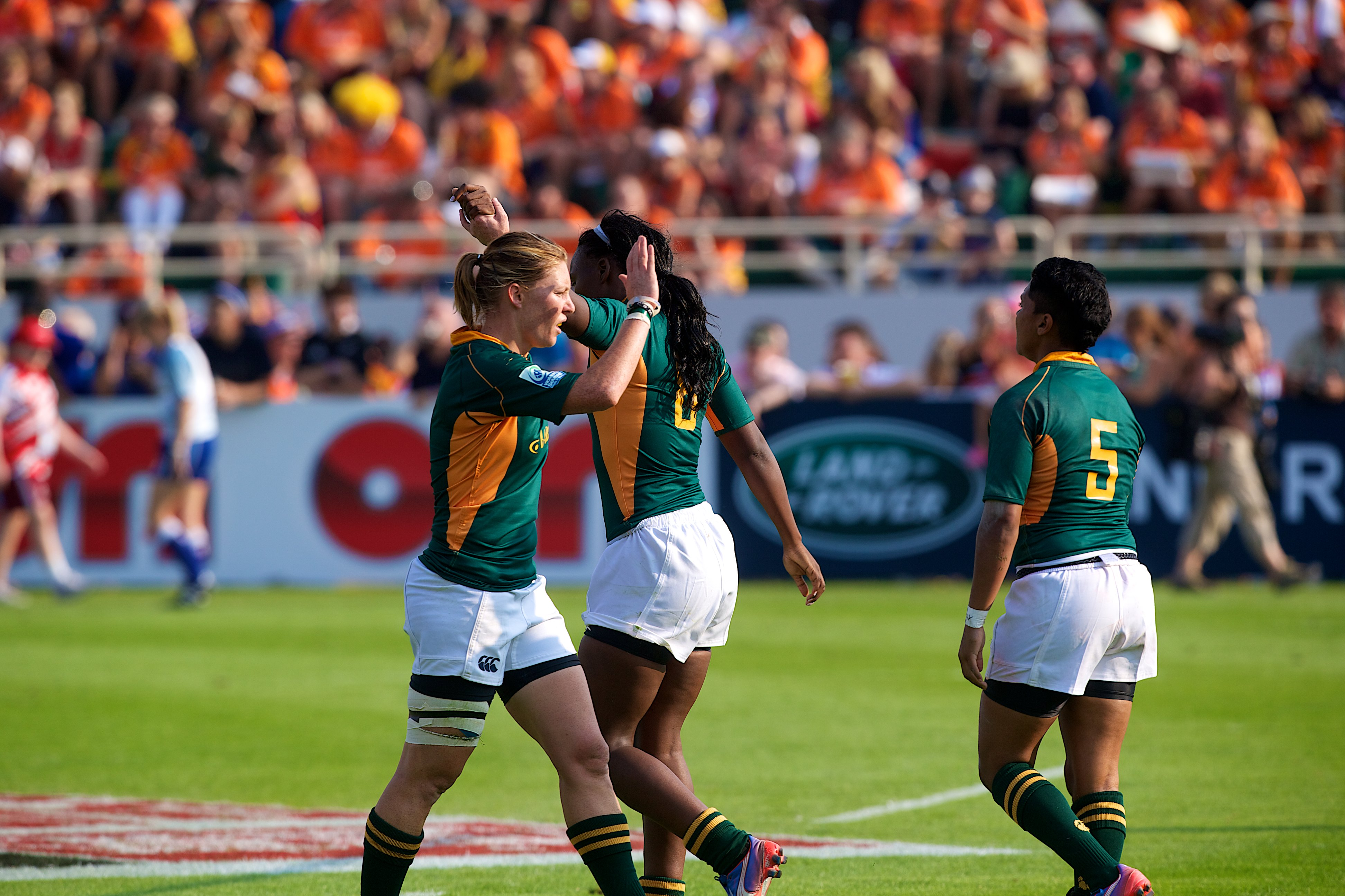 Land Rover is once again the official car sponsor of the Emirates Airlines Dubai Rugby Sevens which took place in Dubai, UAE. Visitors of the event where are able to try their hand at the Speed Pass, Wheel Spin and Engine Power.challenges!